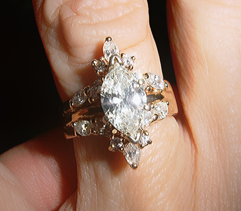 An 18kgold banded engagement-wedding-anniversary ring combination welded together with a 1 Â½ carat center diamond.